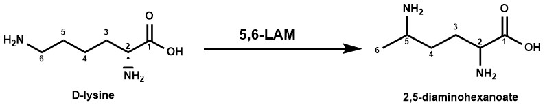 Basic reaction of 5,6-LAM